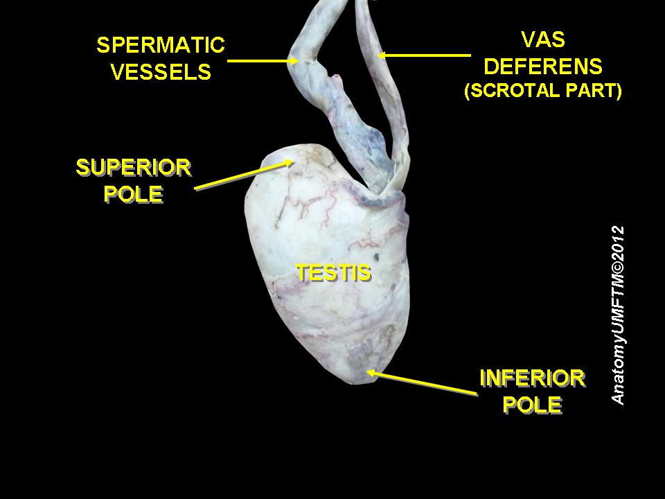 Anatomical dissections